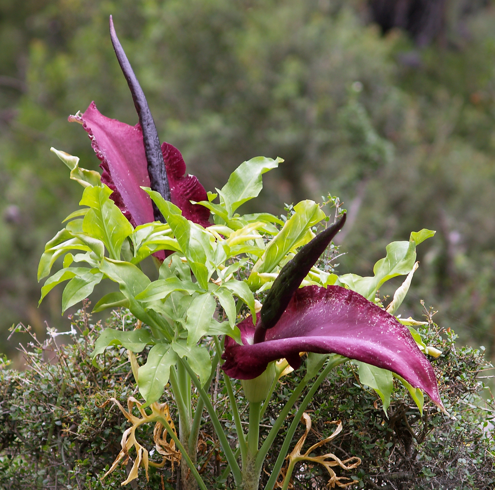 Dragon Arum (Dracunculus vulgaris), Thasos, Greece